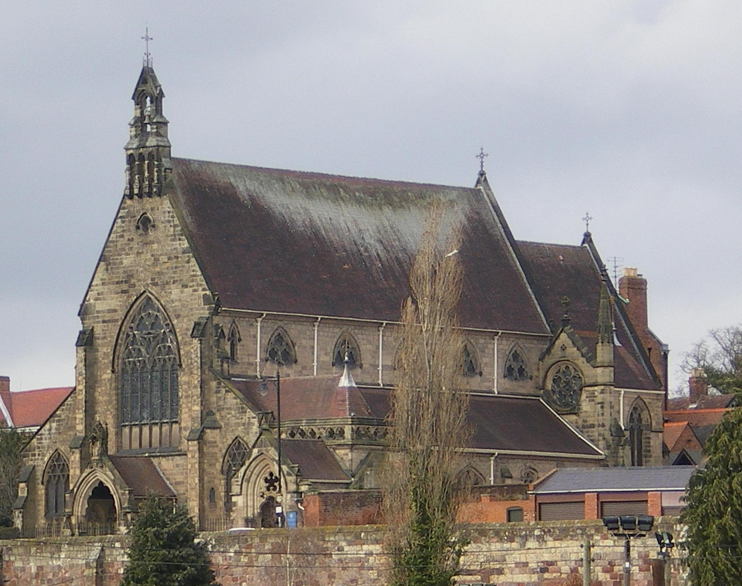 Shrewsbury Cathedral in Town Walls, Shrewsbury, Shropshire, England, UK. Image shows town walls in foreground.